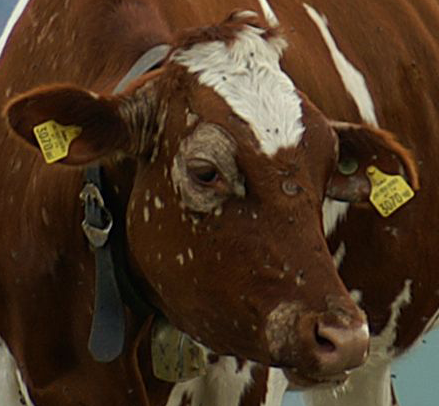 A young hornless Ayrshire animal with ringworm in the face